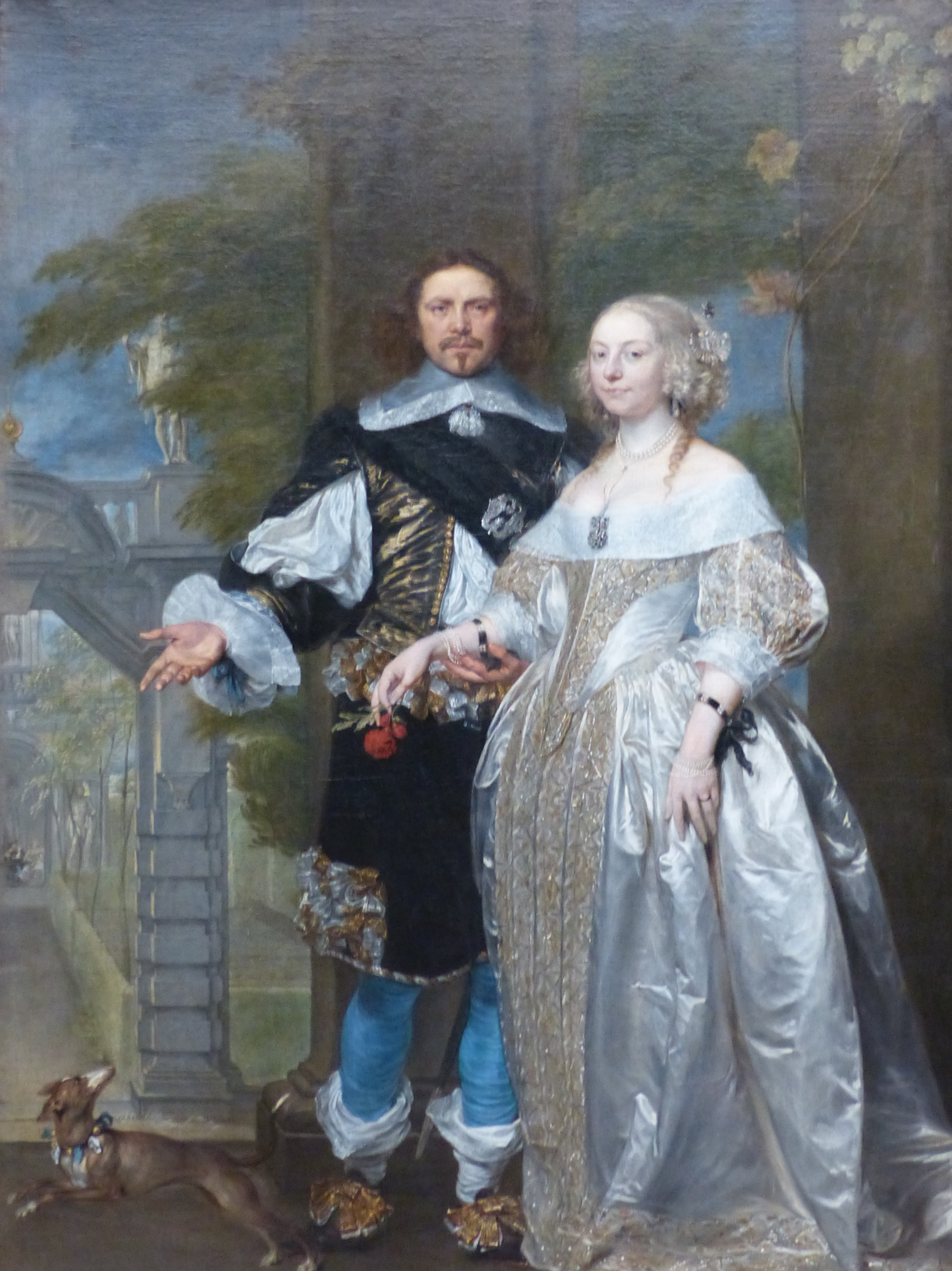 Portrait of a married couple in a park, attributed to Gonzales Coques